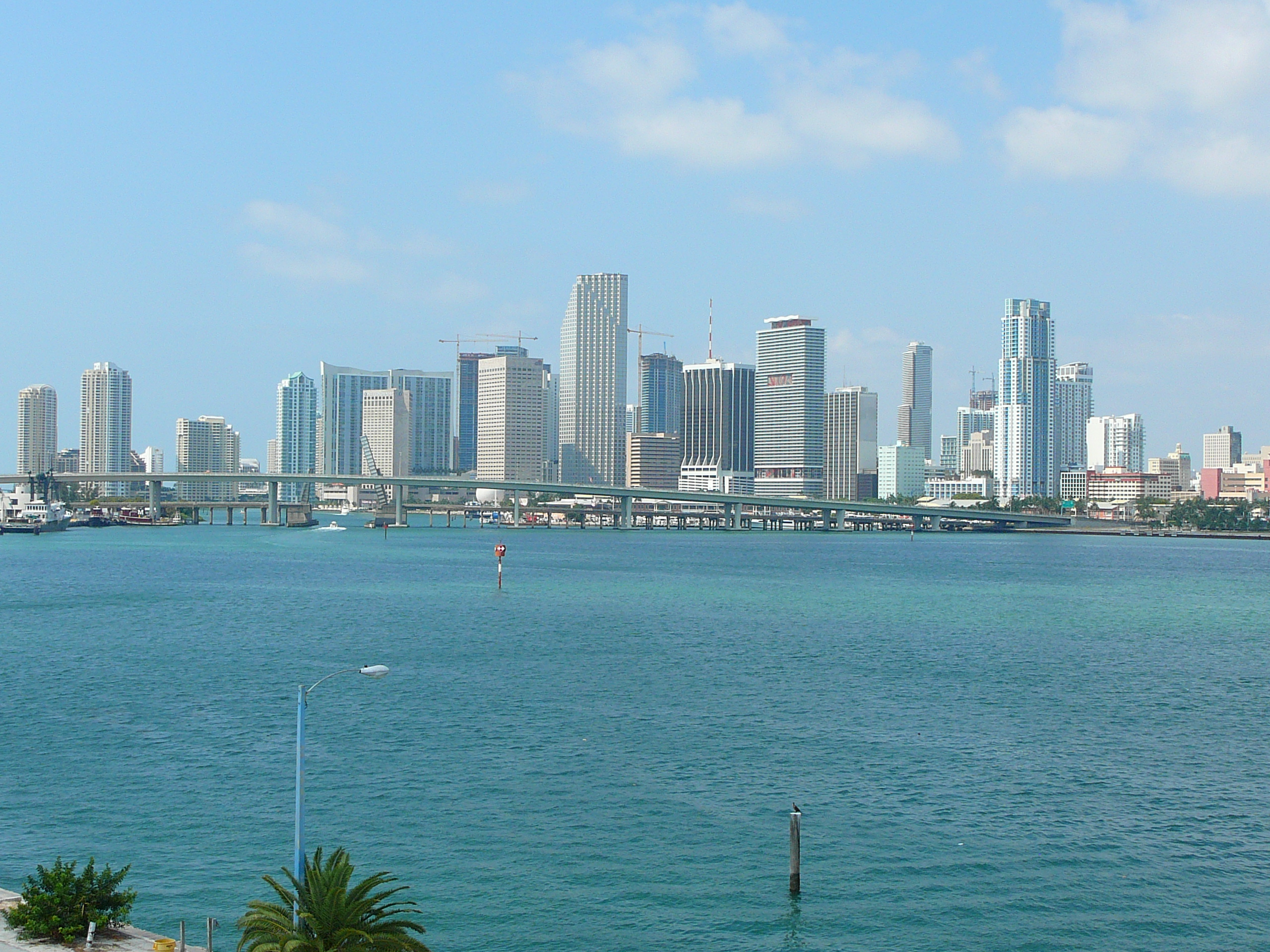 Digital photo taken by Marc Averette. Partial skyline of Miami, Florida showing the Port Boulevard bridge in the foreground. 5/17/2008.